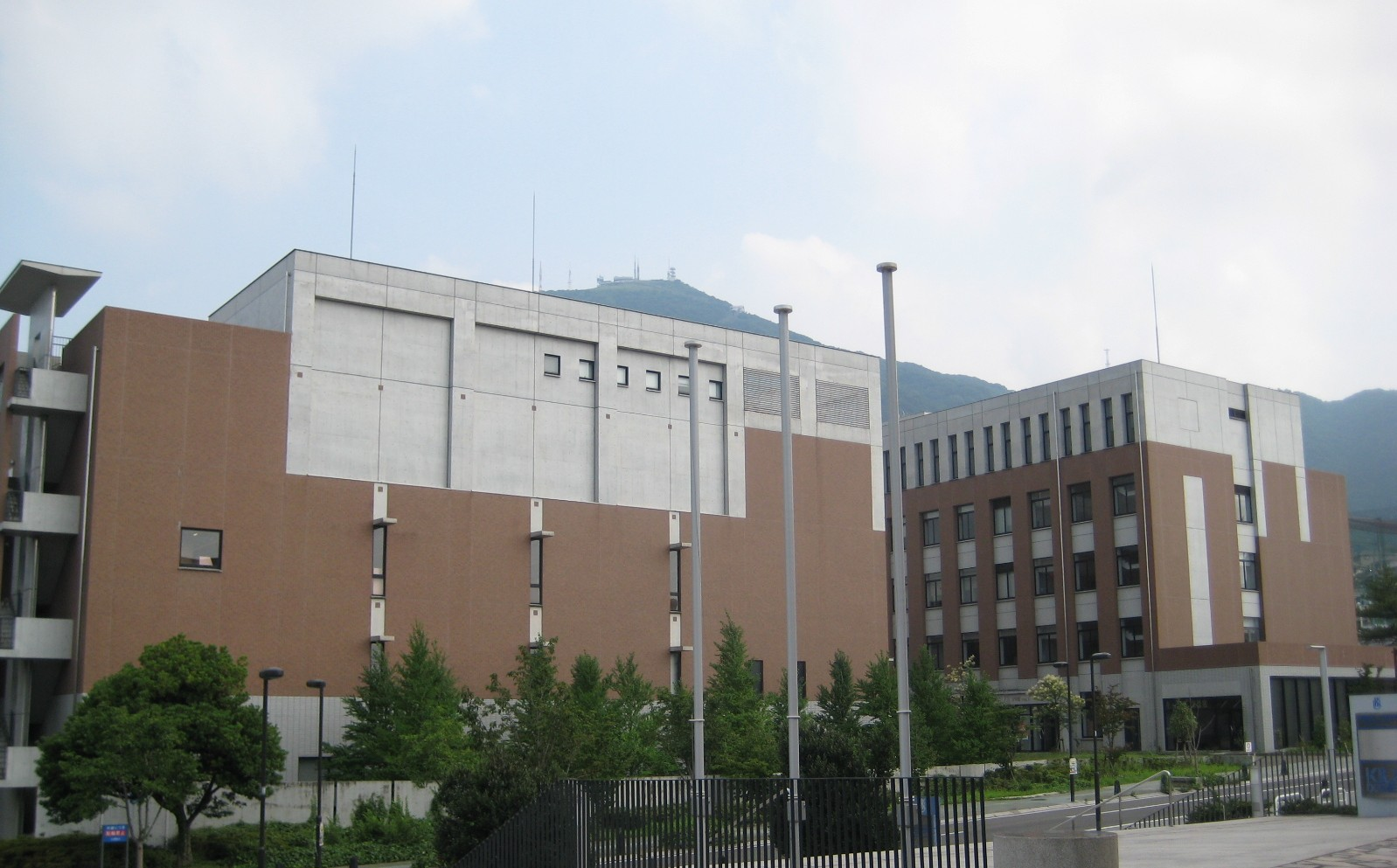 Kyushu International University Media Center, B3